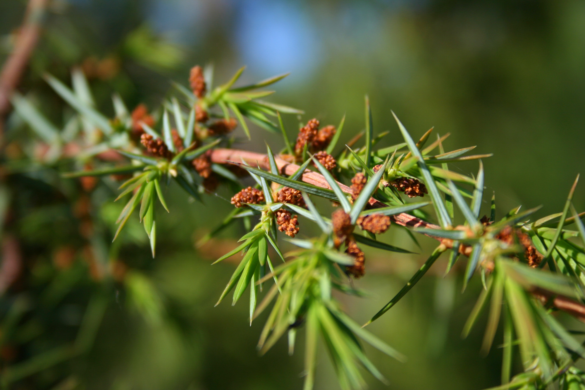 Juniperus communis pollen cones. Kosovo.